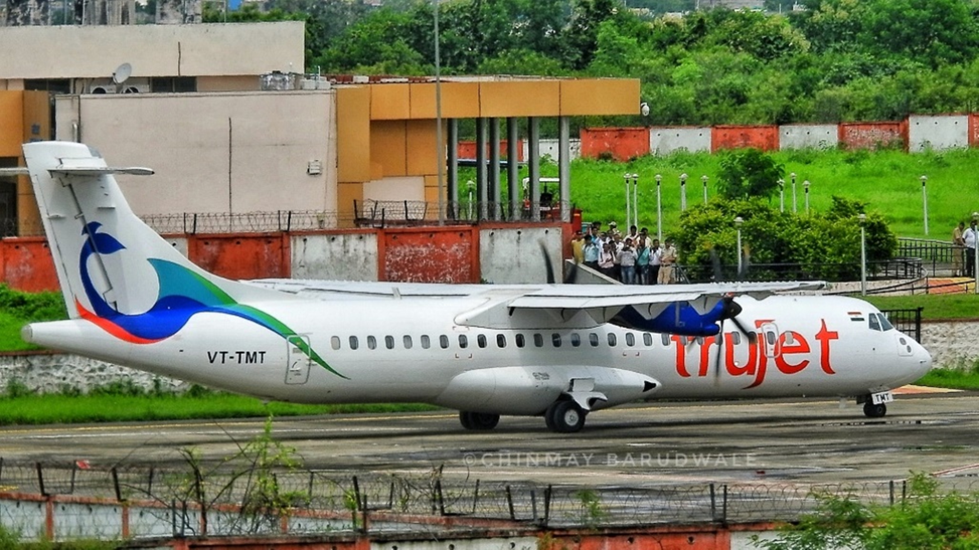 First Flight of Truejet From Jalgaon Airport. Jalgaon to Mumbai.